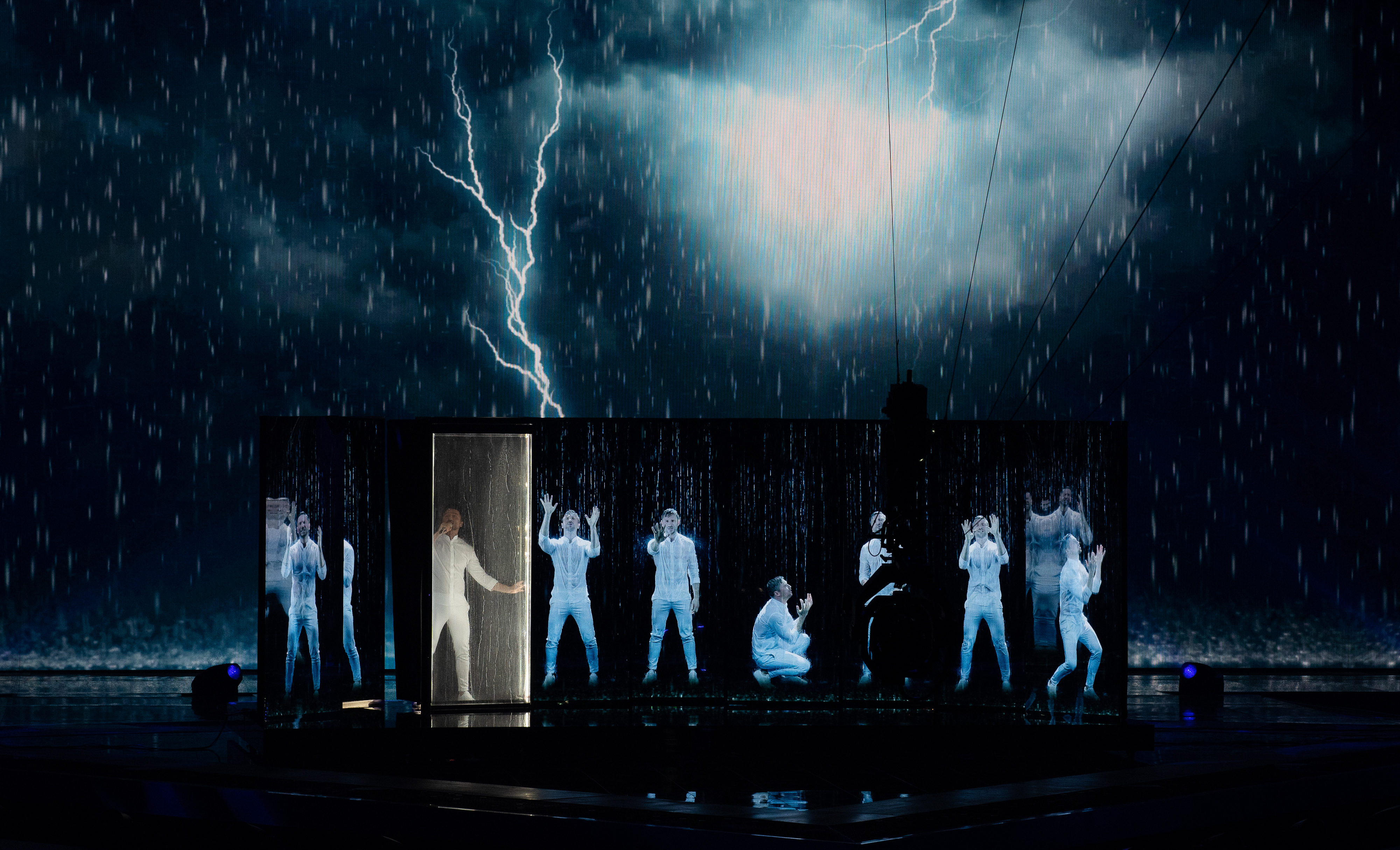 Sergey Lazarev representing Russia with the song "Scream" during a rehearsal before the second semi-final of the Eurovision Song Contest 2019 in Tel-Aviv.